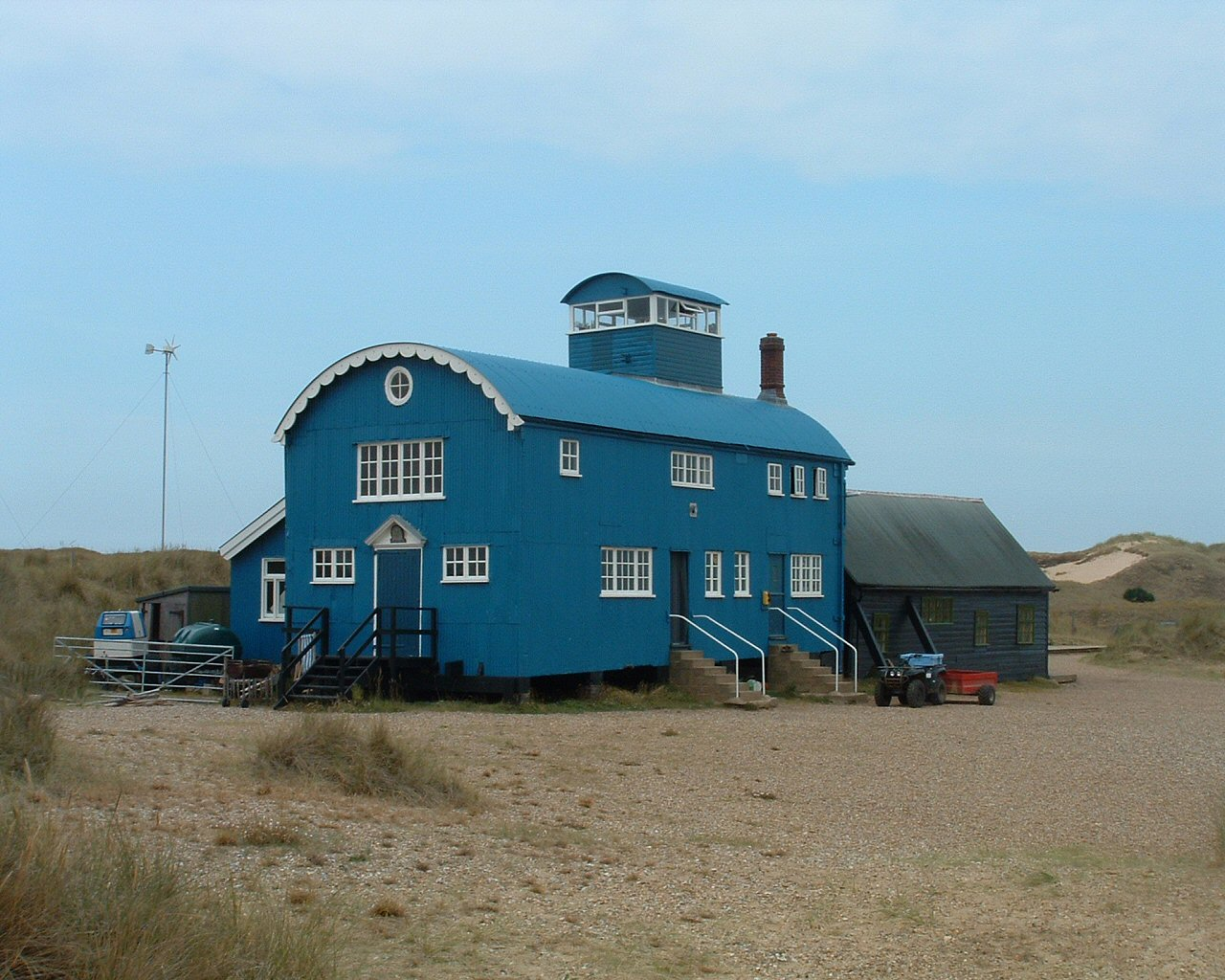 Former lifeboat station at the end of Blakeney Point, now a field study centre.